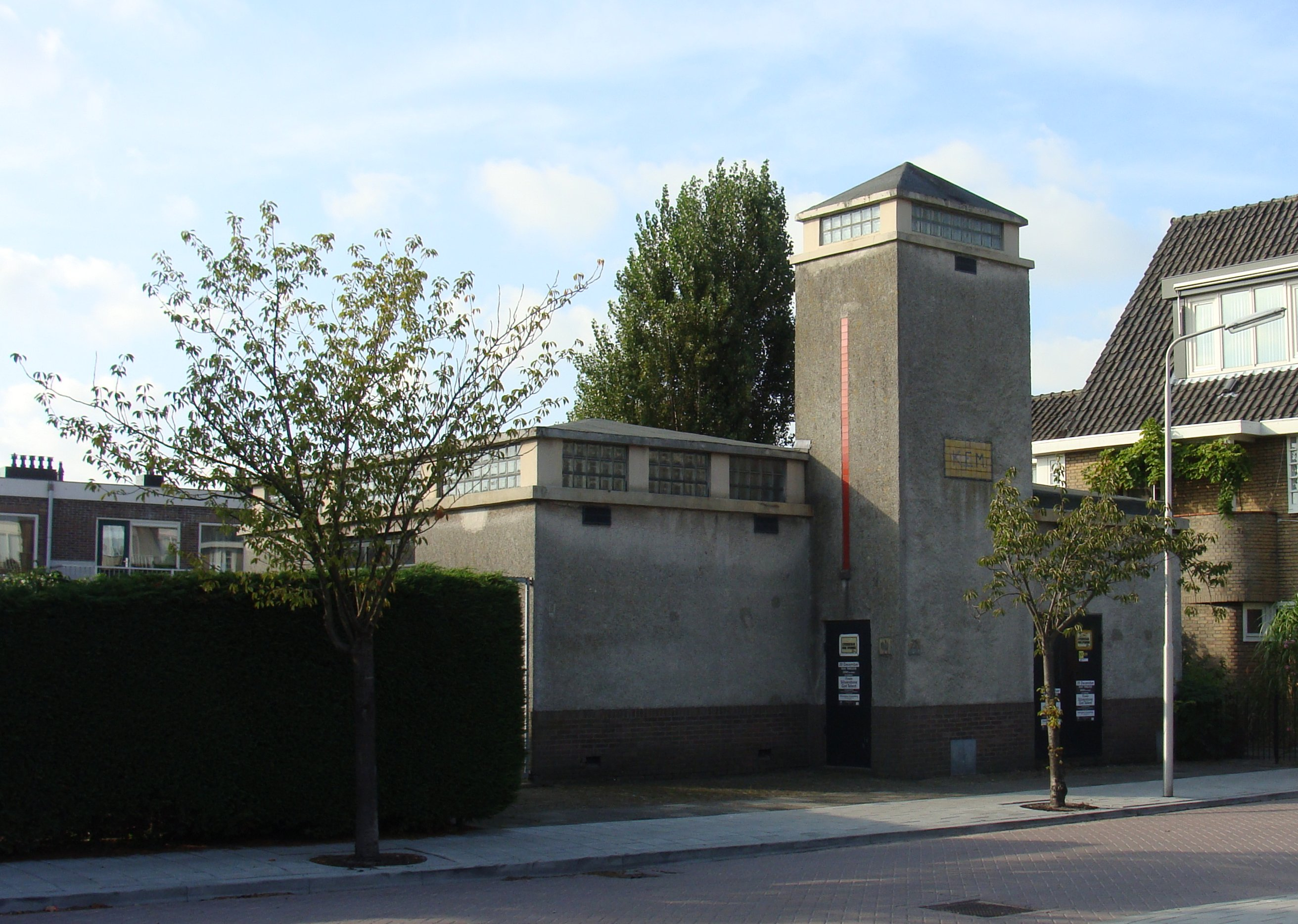 Electrical substation in Halfweg (Noord-Holland, The Netherlands. Designed by J.B. van Loghem (1887-1940) in 1915.